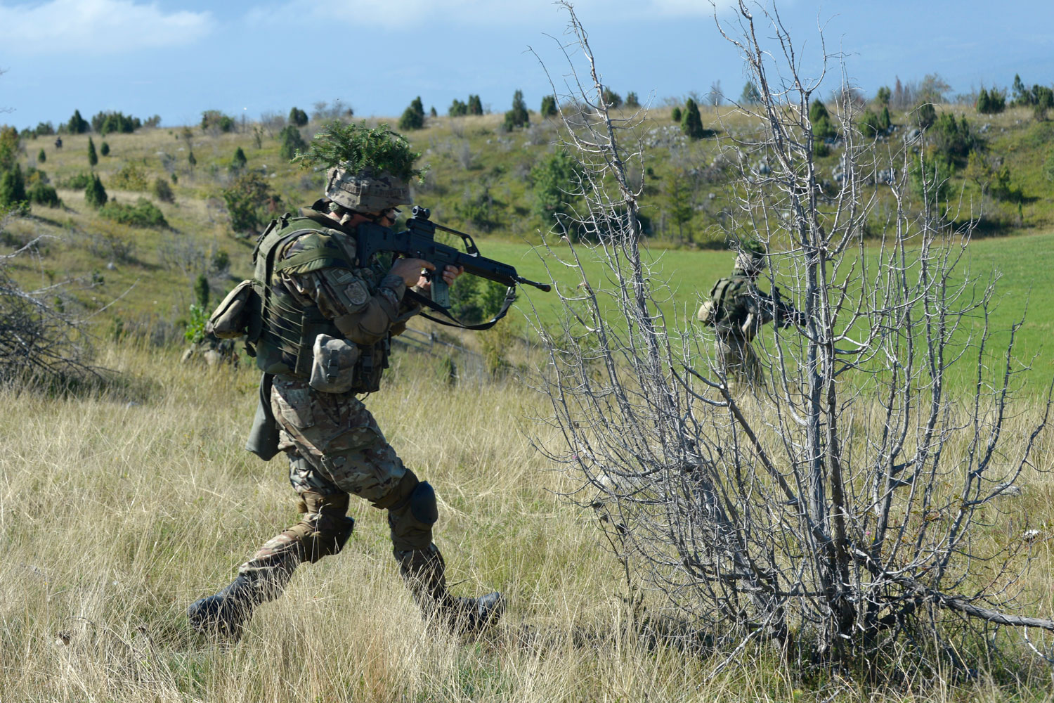 Military Montenegro